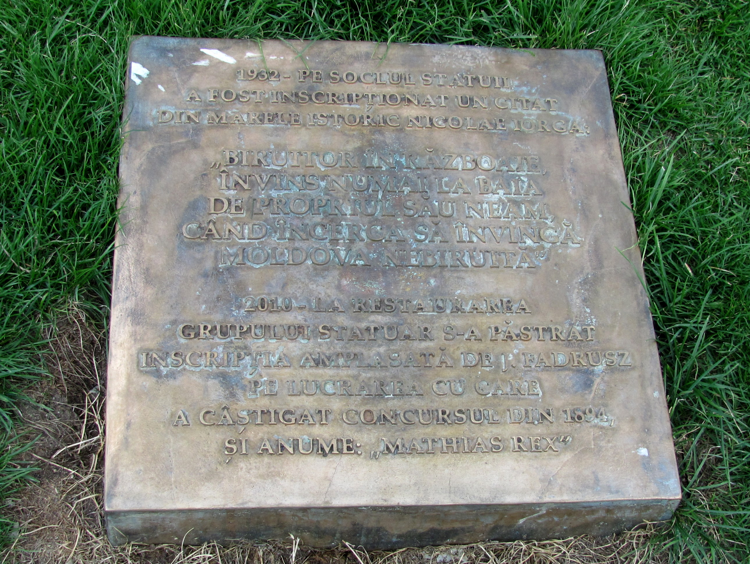 Statuary ensemble of Mathias Rex (Inscription)